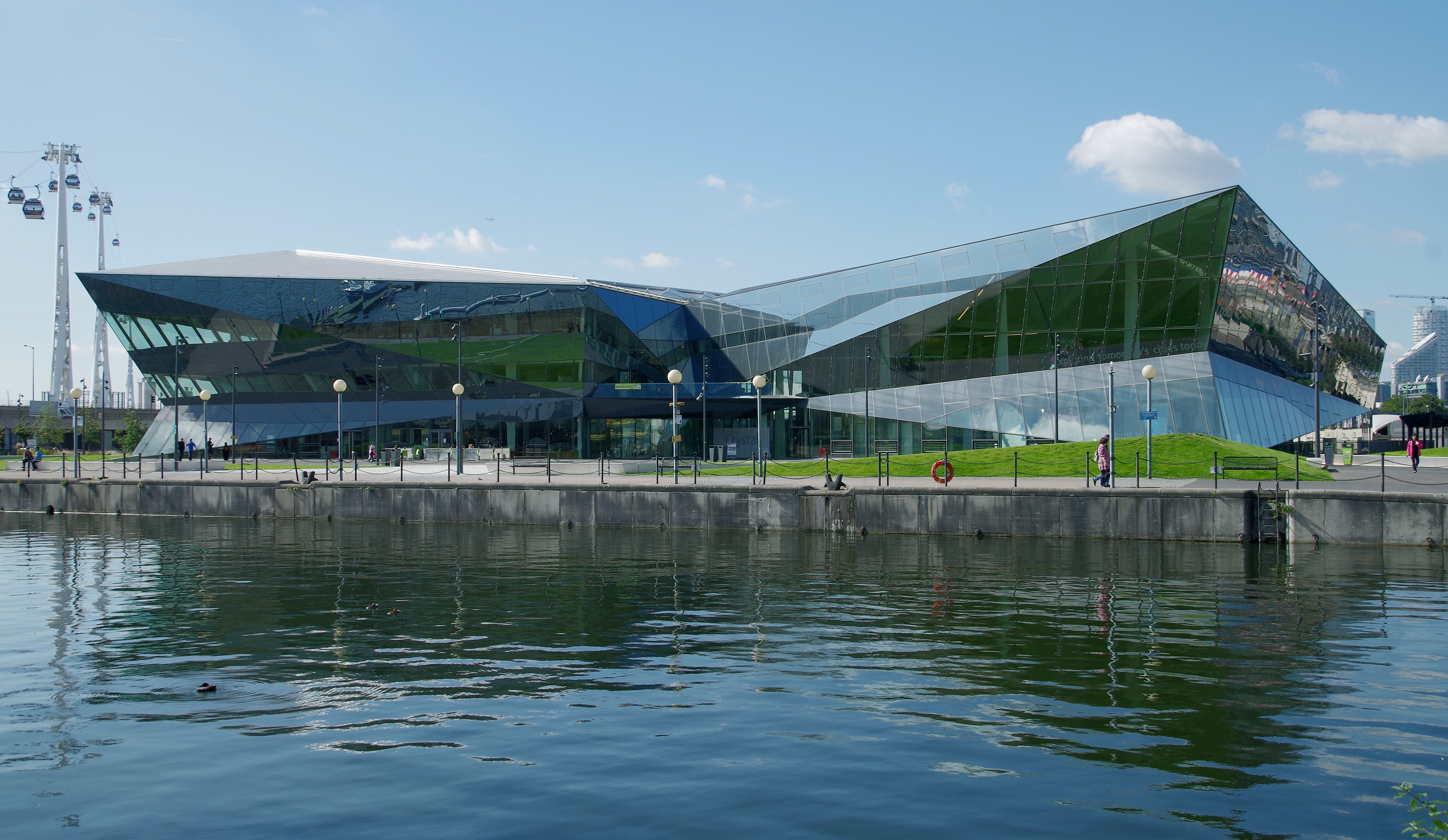 Looking across the waters of the Royal Victoria Dock to The Crystal.